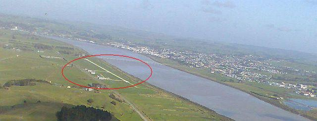 Dargaville Airfield photo taken from an aircraft on left base at approx 800ft, with the Wairoa River and Dargaville town in the background. Taken approx Sept 2009.